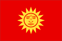 Drapeau de la principauté de Cooch Behâr Contents 1 Statut 2 Statut 3 Licensing 4 Original upload log Statut Nataraja d'après Arms and Flags of the Indian Princely States, J.D. McMeekin Statut Nataraja Catégorie:Drapeau de principauté des Indes